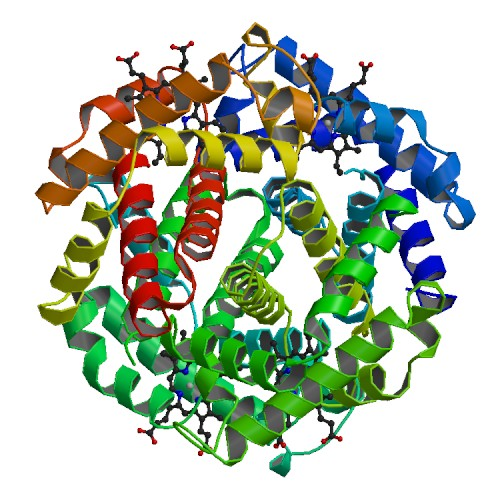 PBB Protein HBB